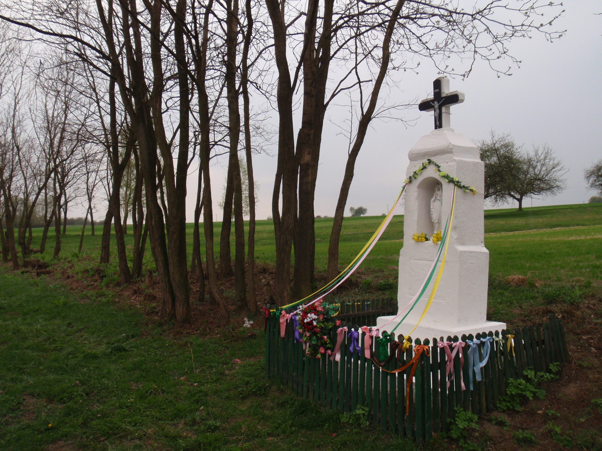 Wayside shrine in Goryń Kolonia